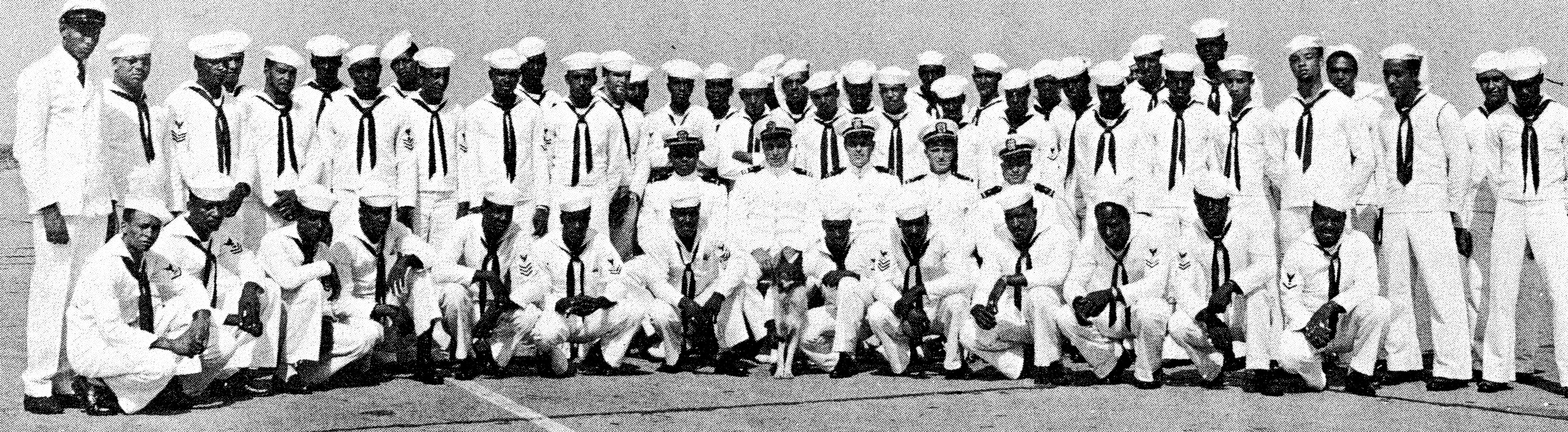 The officers, crew and mascot of USS PC-1264. Photo taken sometime after May 2, 1945 as Ensign Gravely reported aboard on that date and, in the photograph, he is seated to the left of the other officers. All the white Petty Officers were transferred off the ship in November, 1944. The canine mascot, seated front center, was named "Gizmo" after a vote by the crew.